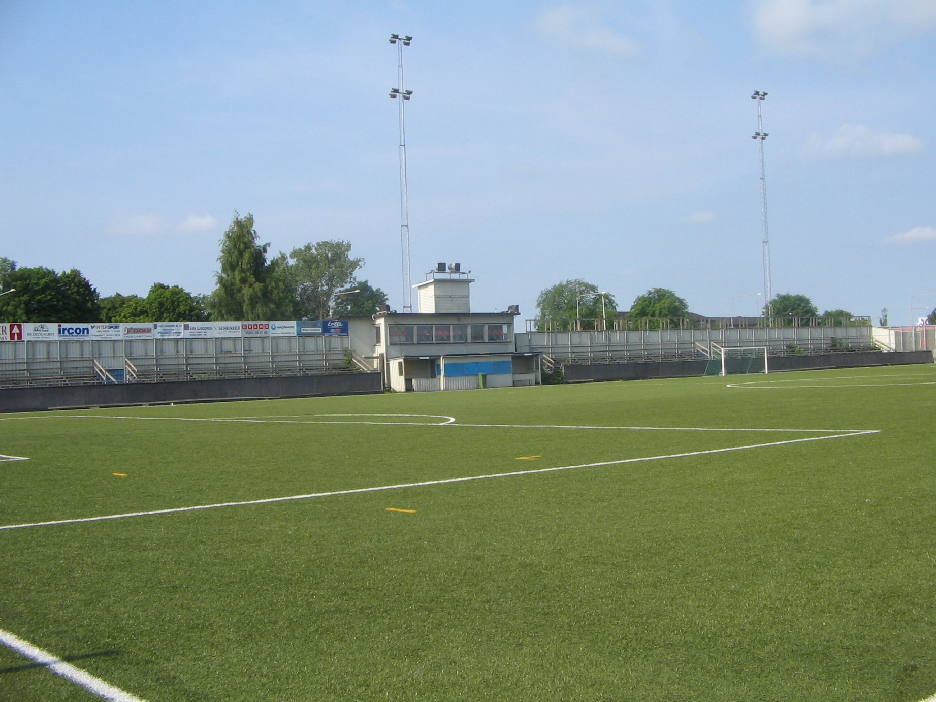 Vänersborg bandy arena at summer